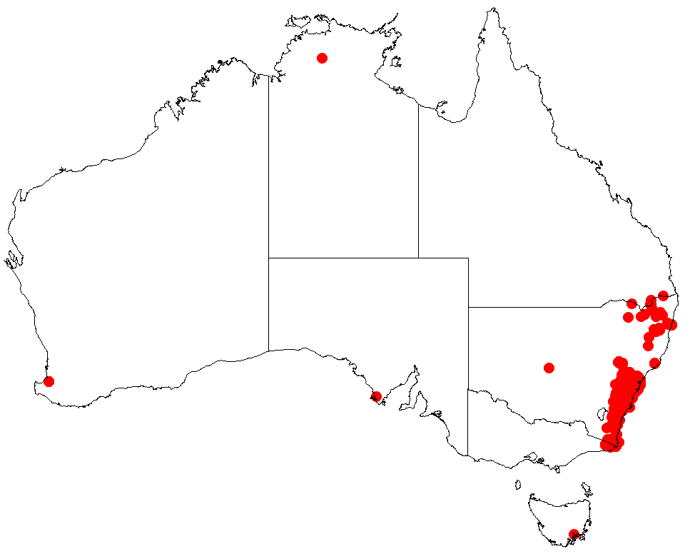 Hakea dactyloides Occurrence data downloaded from Australasian Virtual Herbarium on 22 November 2018 using